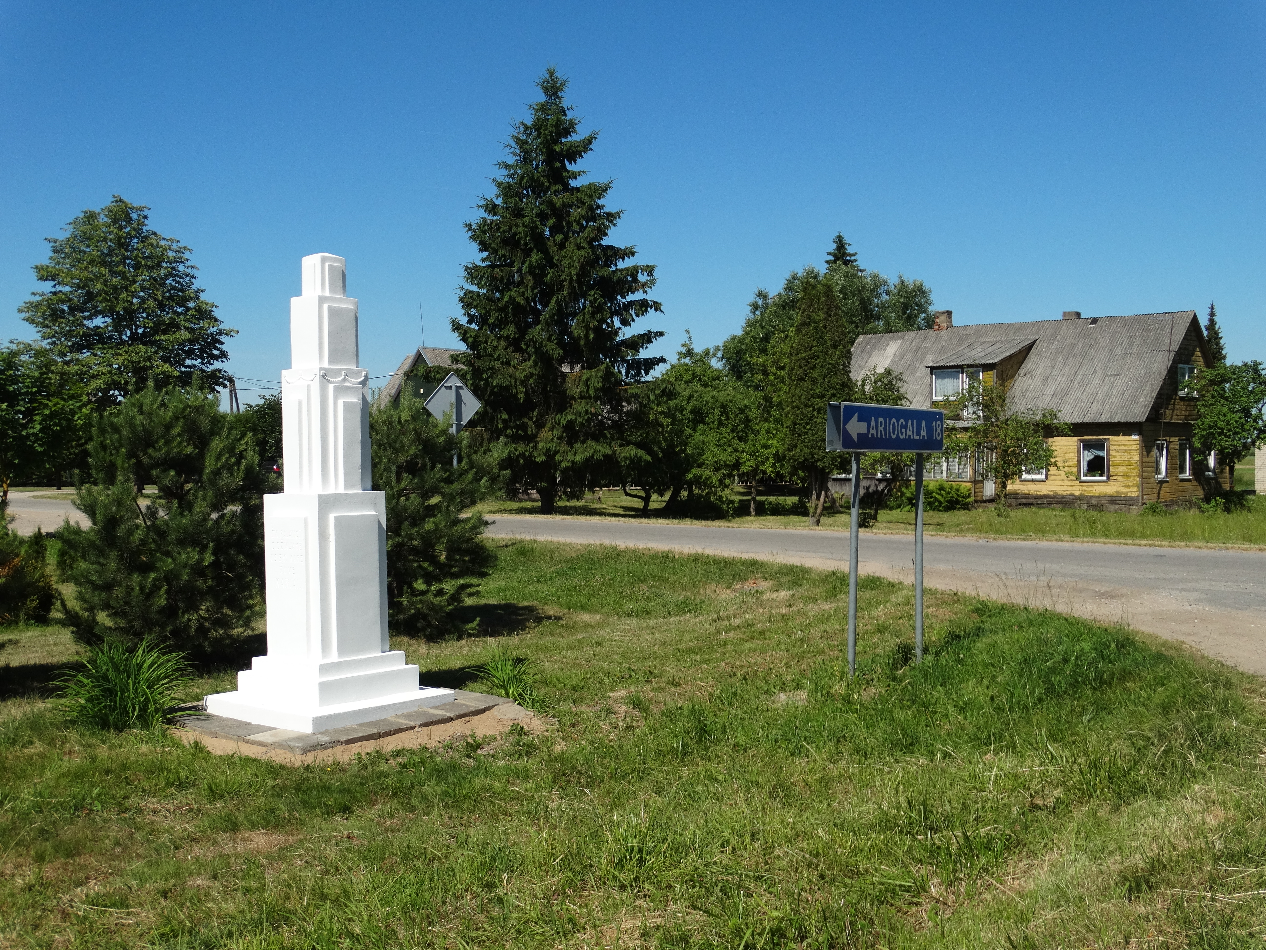 Monument to pilots Darius and Girėnas who crossed the Atlantic Ocean in 1933. Ilgižiai, Raseiniai District, Lithuania